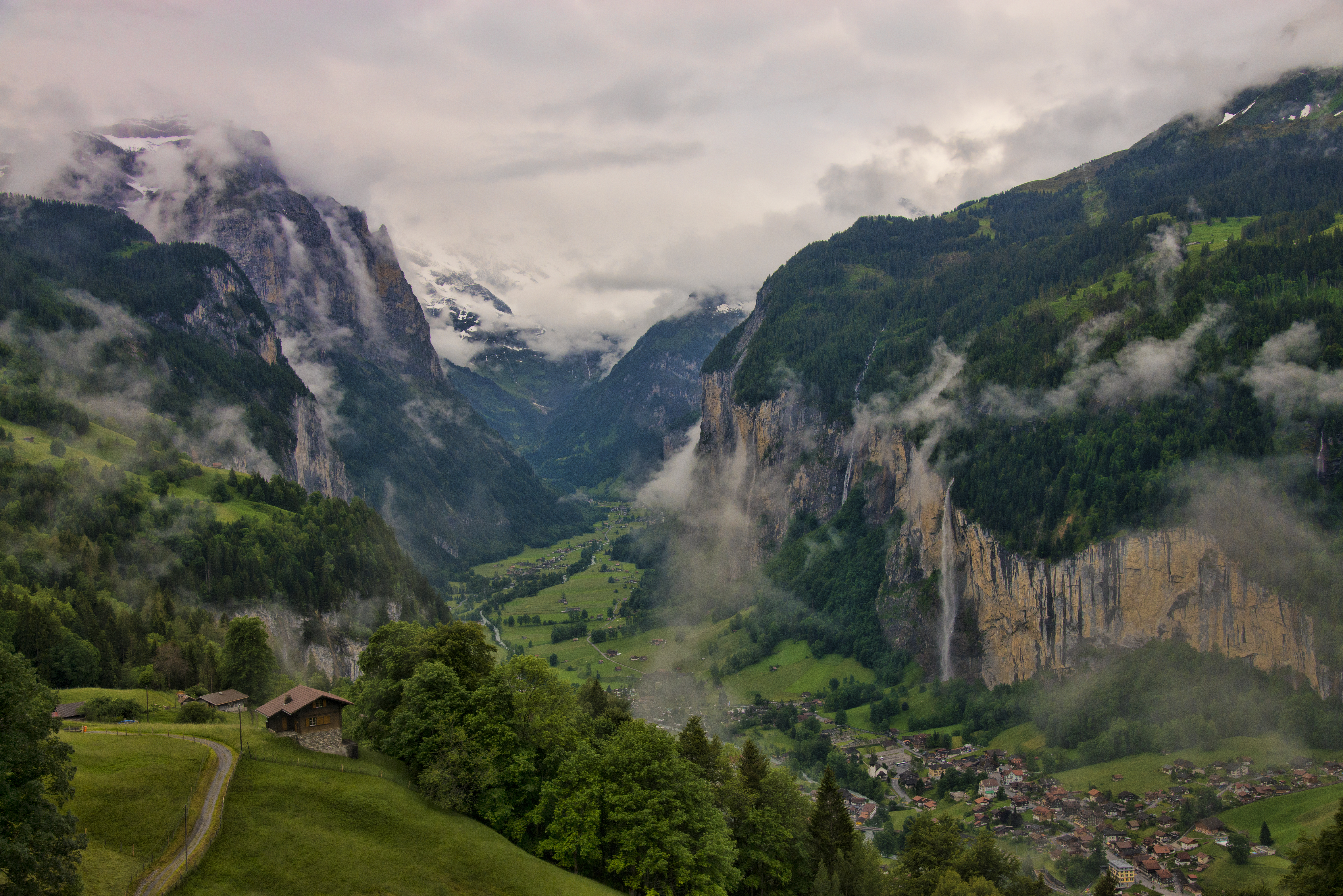 lauterbrunnen valley from wengen 2012 switzerland